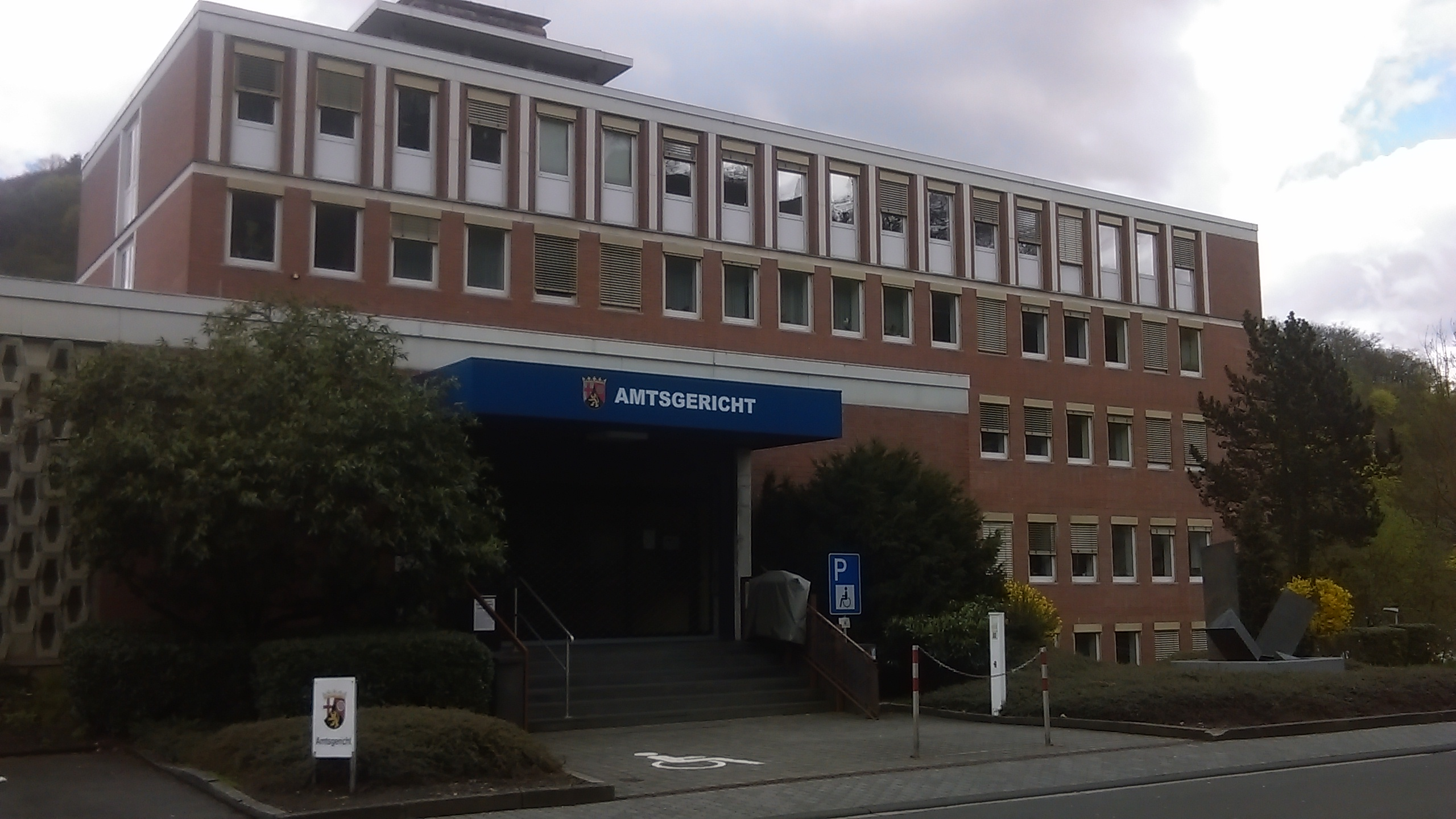 1 county court of Idar-Oberstein 2016